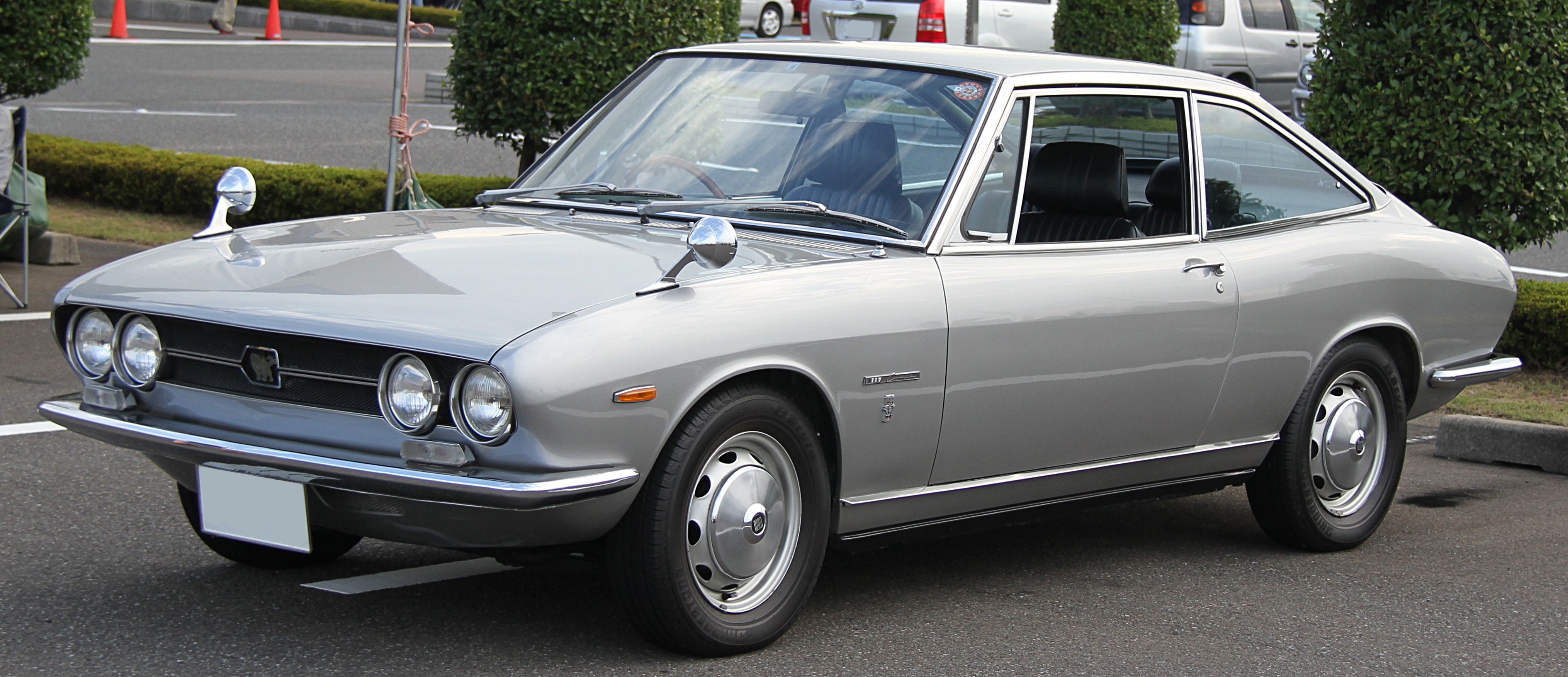 Isuzu 117 Coupe